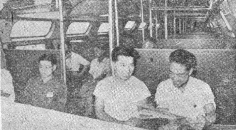 The upper deck of China Railways NM1 Dongfeng DMU train.